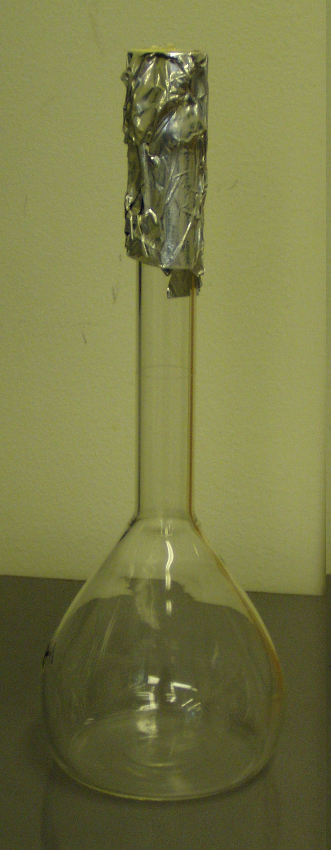 A volumetric flask. The target volume mark is faintly visible as a thin line encircling the neck of the flask.